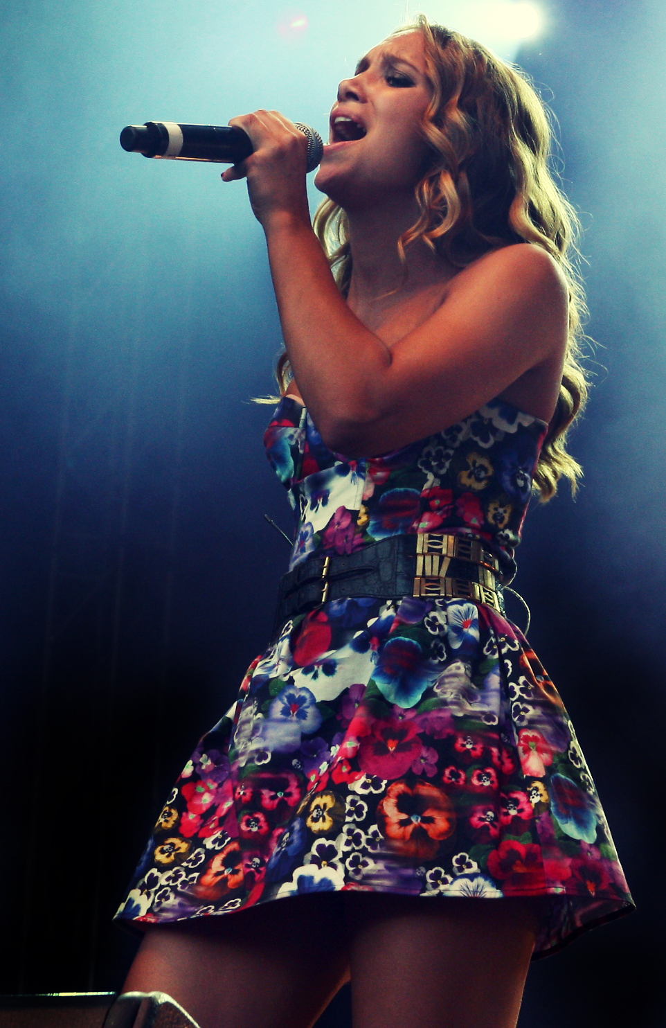 Agnes Carlsson at Rix Fm Festival, Kalmar, Sweden.